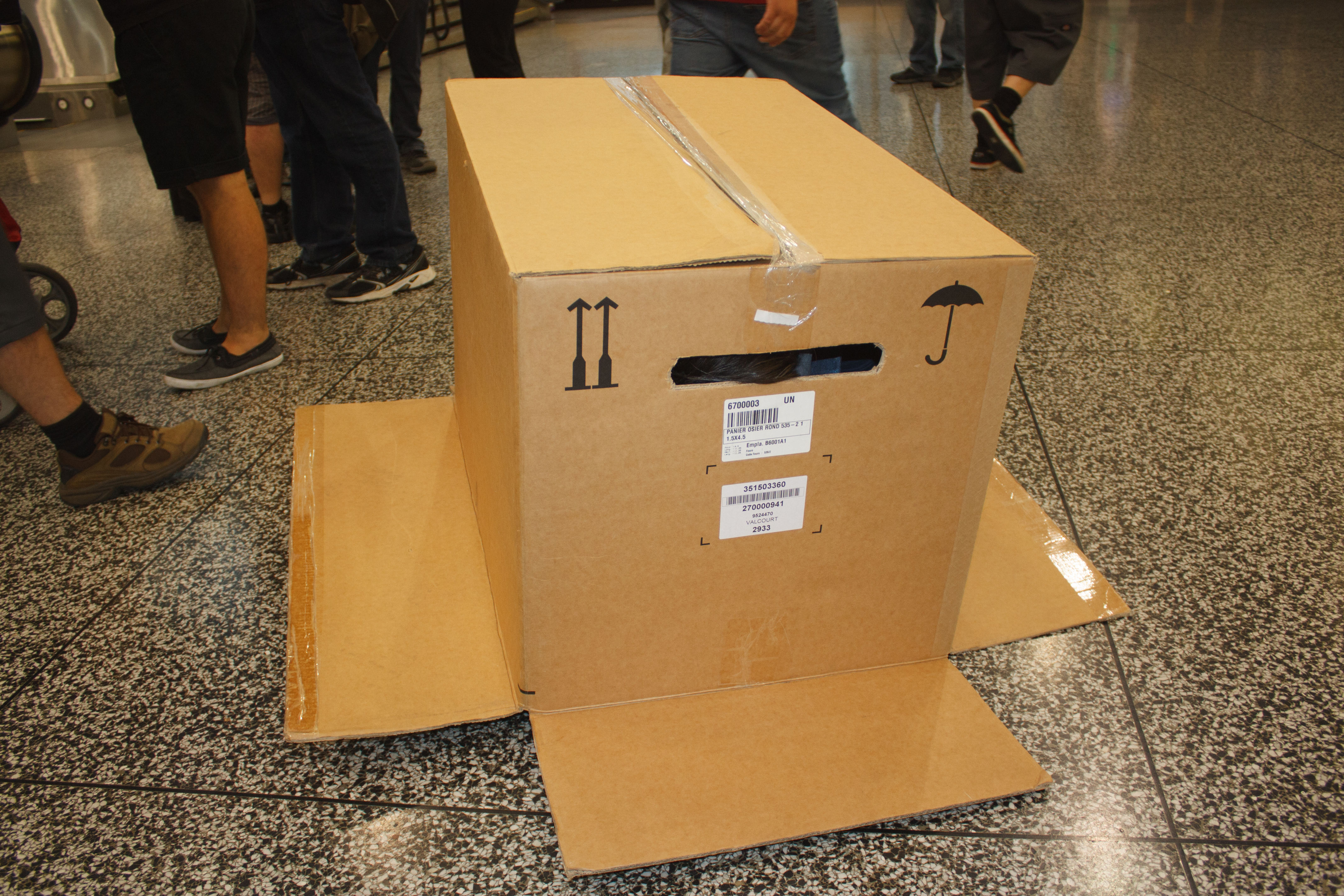 Cosplay on Saturday, day two, of the Montreal Comiccon 2016.